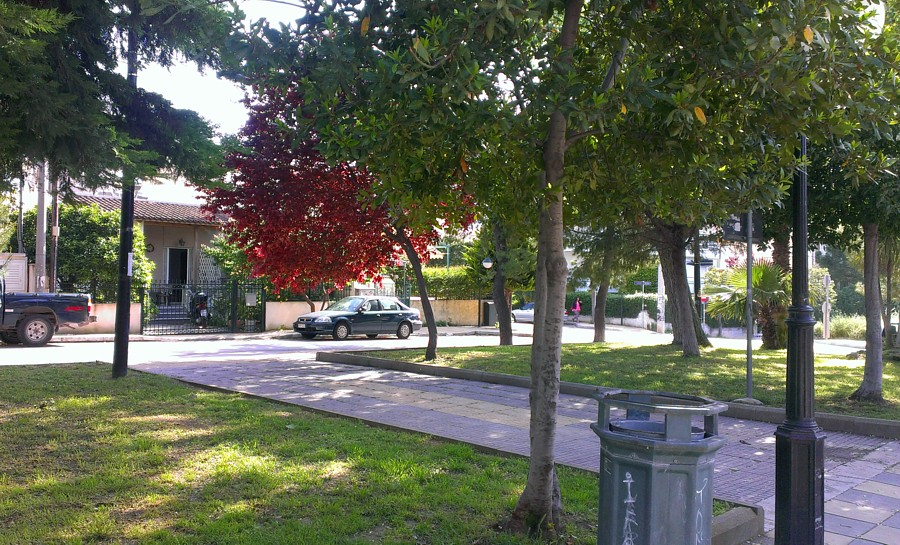 lykovrysi